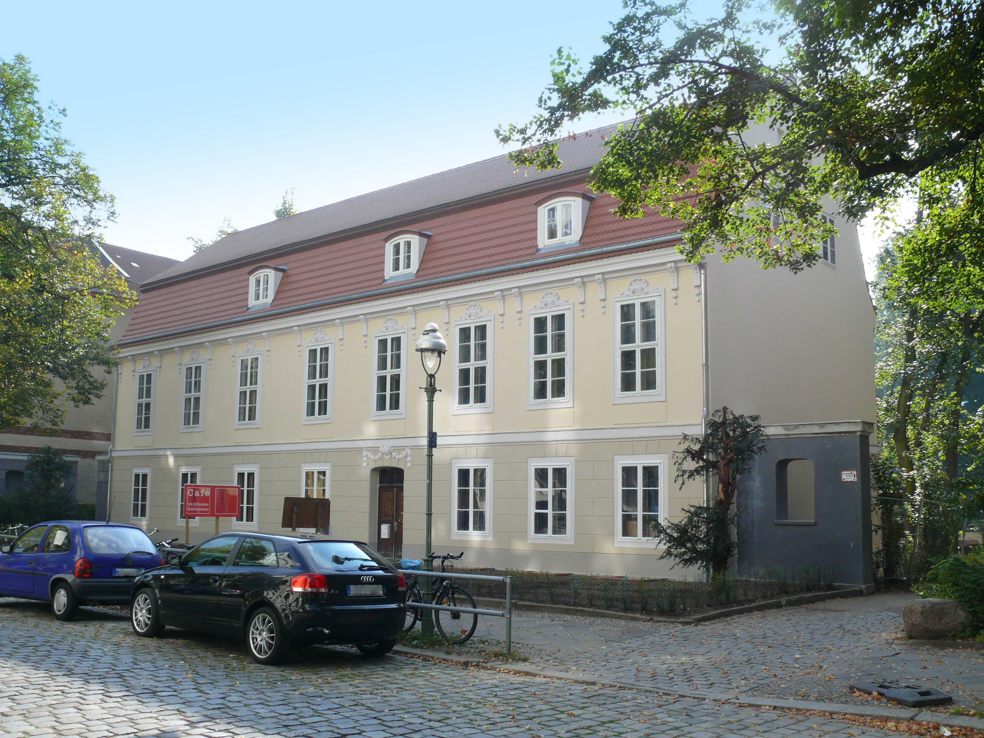 Berlin-Wilmersdorf Schoeler-Schlösschen